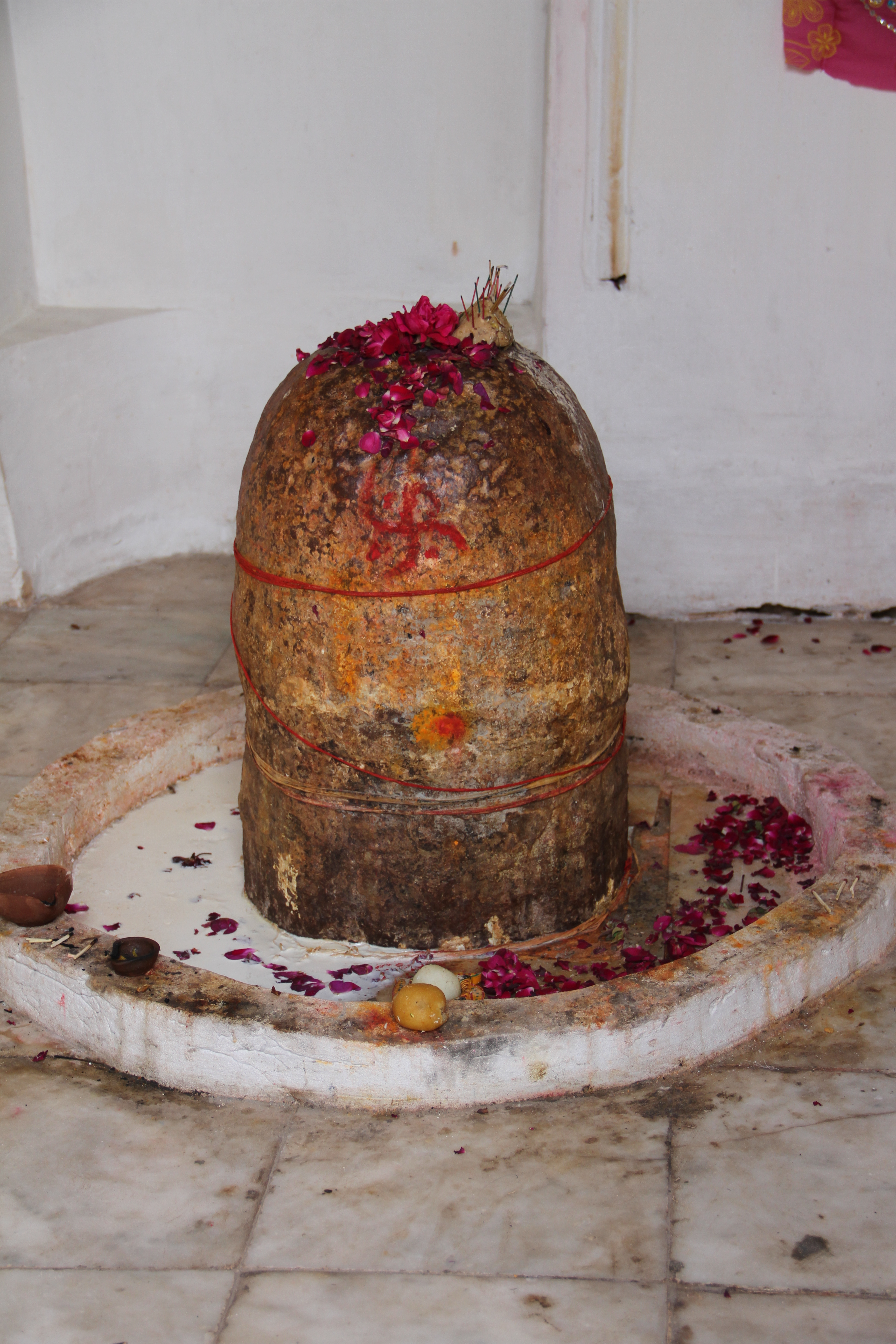 Katas Raj Temple, Lahore